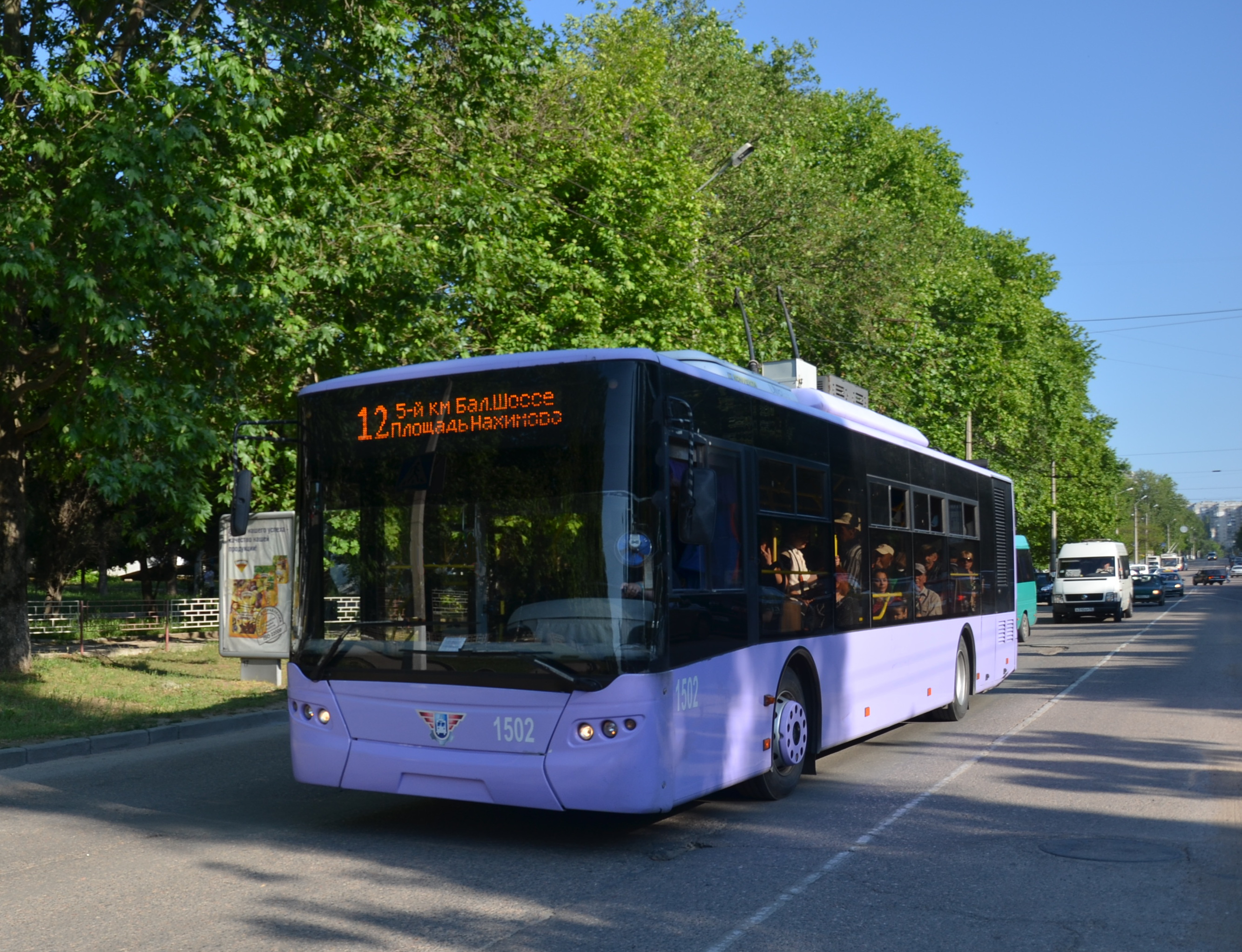 ElectroLAZ-12 in Sevastopol